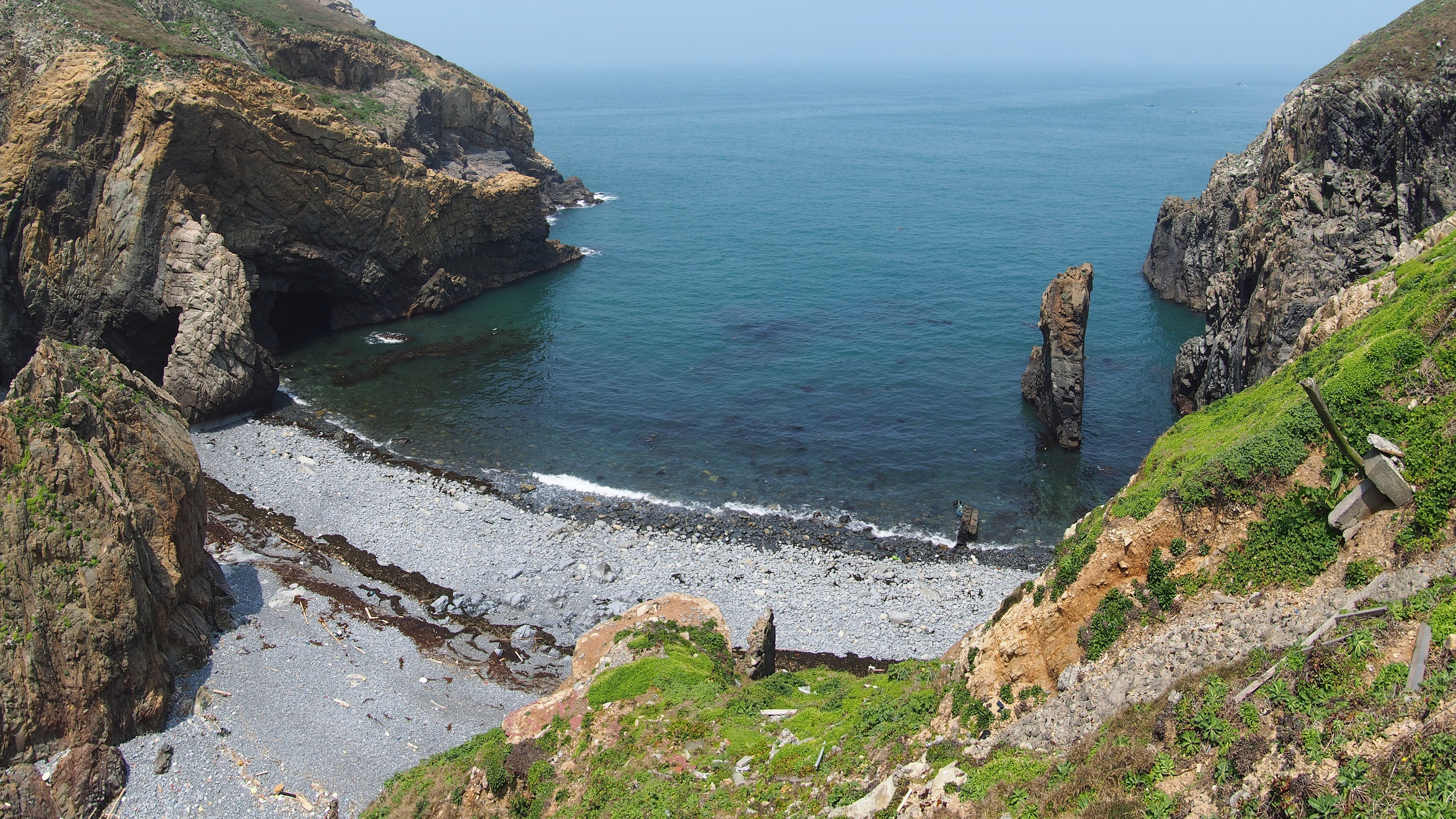 Sea Eroded Features of Hou'ao - 2016.04